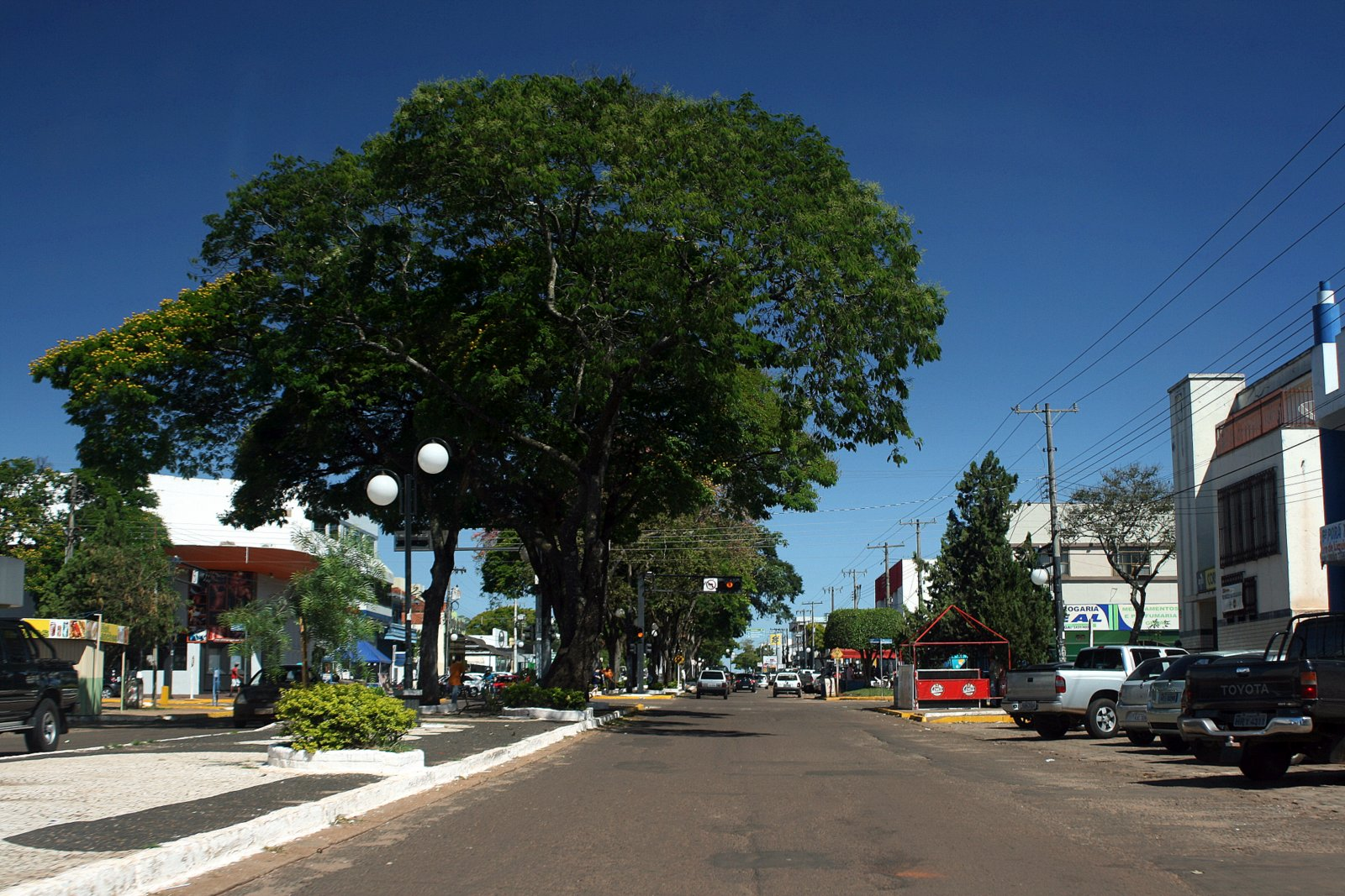 Avenida Brasil in downtown Ponta Porá.